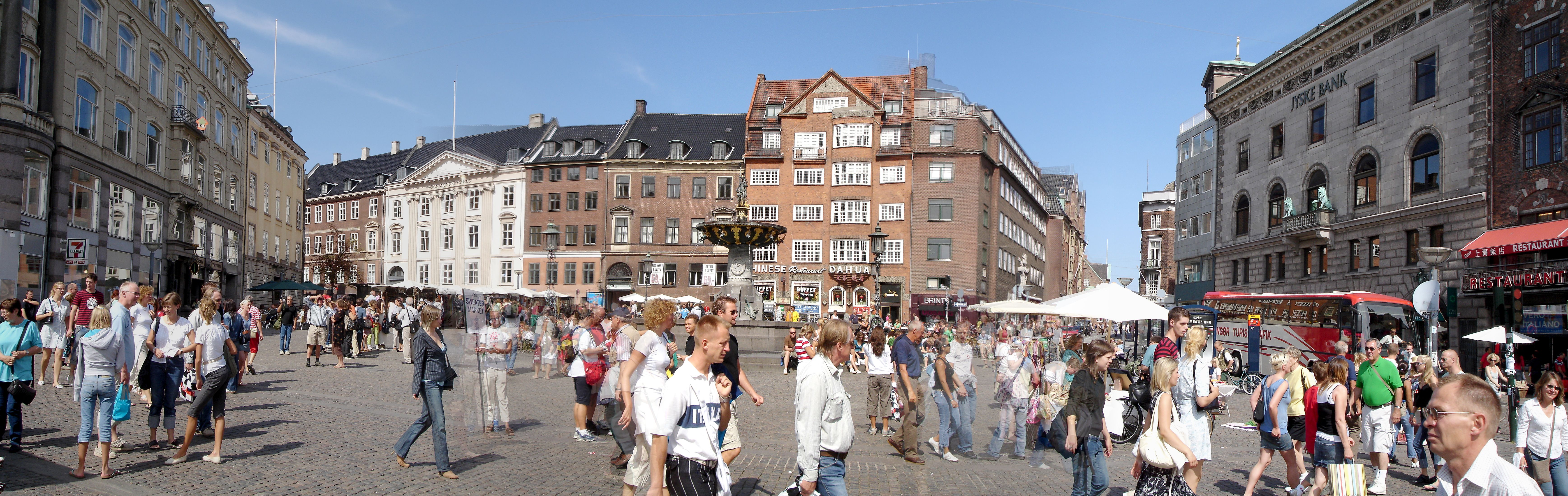 Panorama photo of Gammeltorv in Copenhagen, Denmark